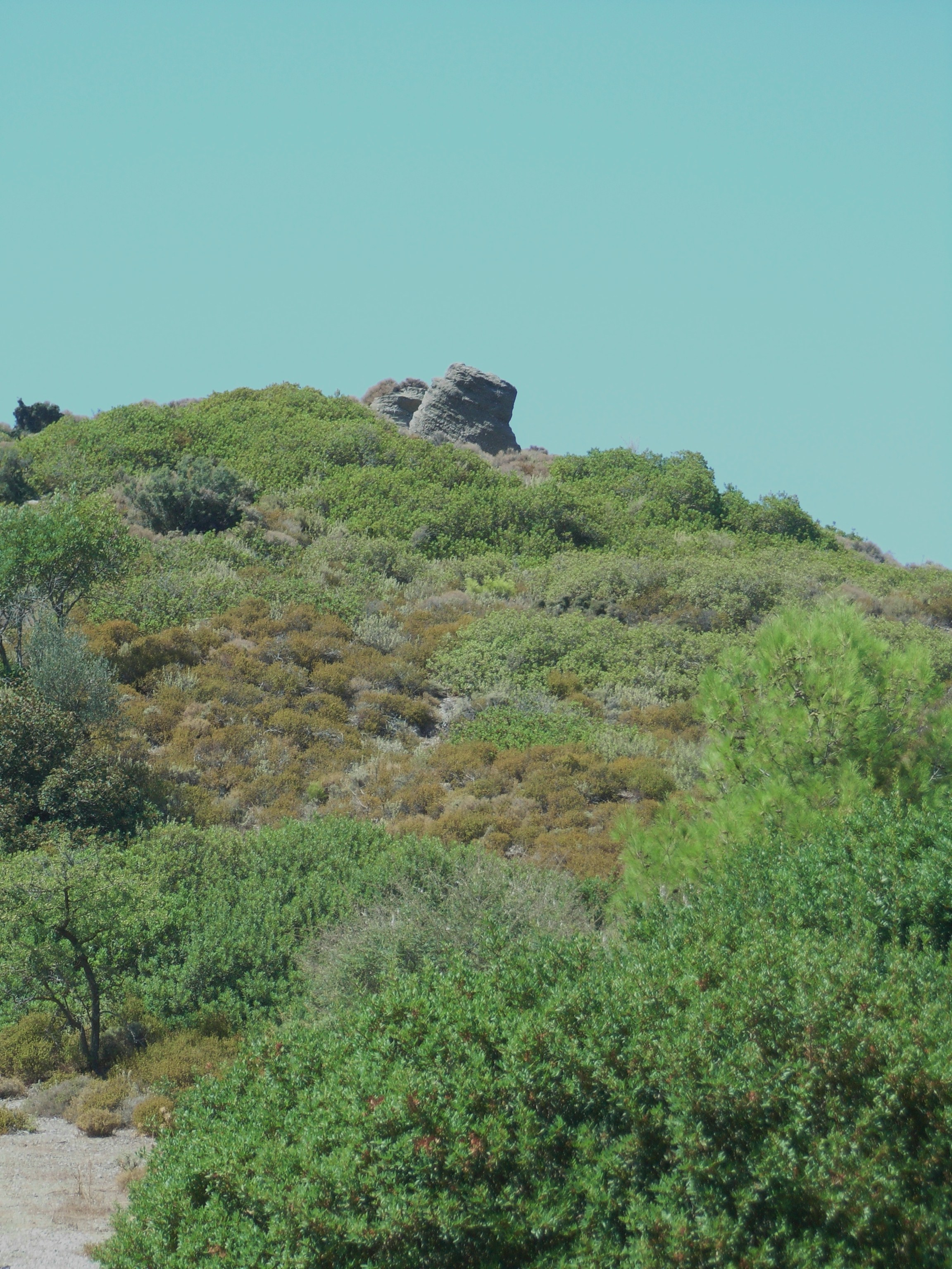 Phrygana (synonym spiny garrigue) - open dwarf scrub dominated by low, often cushion-shaped, spiny shrubs. The phryganic species are high temperature- and drought-tolerant and they grow at low altitudes, usually on poor and rocky limestone and siliceous substrates The most common phryganic species on Rhodes are: Sarcopterium spinosum, Cistus incanus ssp. creticus, Cistus salviifolius, Phlomis fruticosa , Salvia triloba Quercus coccifera, Asparagus acutifolius, Genista acanthoclada, Euphorbia acanthothamnos, Sarcopoterium spinosum and Pistacia lentiscus Other species include, Coridothymus capitatus, Thymus sp., Hypericum empetrifolium, Salvia triloba, Sarcopoterium spinosum, Erica manipuliflora, Calicotome villosa, Ballota acetabulosa, Asphodelus aestivus, and Globularia alypum